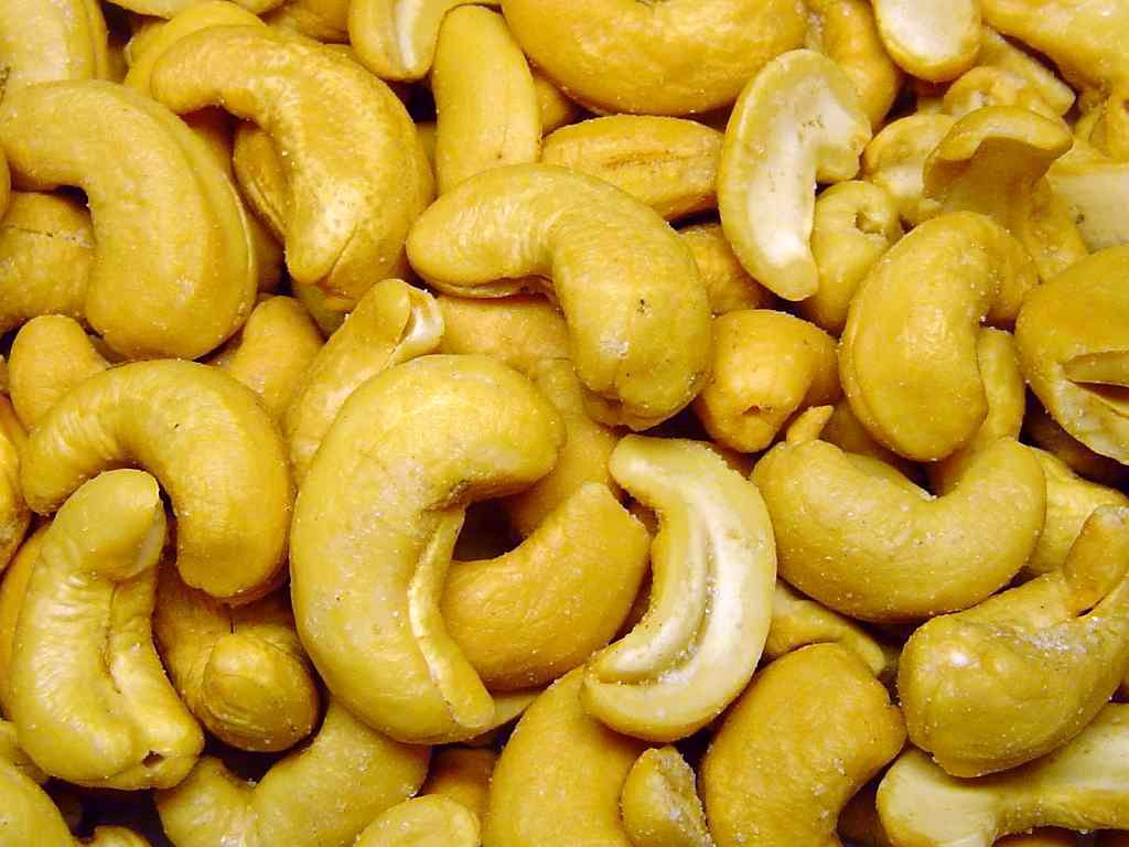 Cashew nut snack, roasted and salted